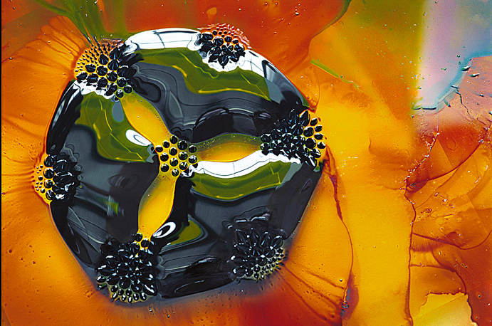 A 3-cm drop of ferrofluid on a glass slide. A slip of yellow paper sits below the slide and a set of seven small circular magnets under the paper affects the form of the drop.